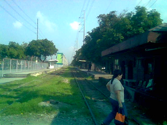 Exterior or Vito Cruz railway station